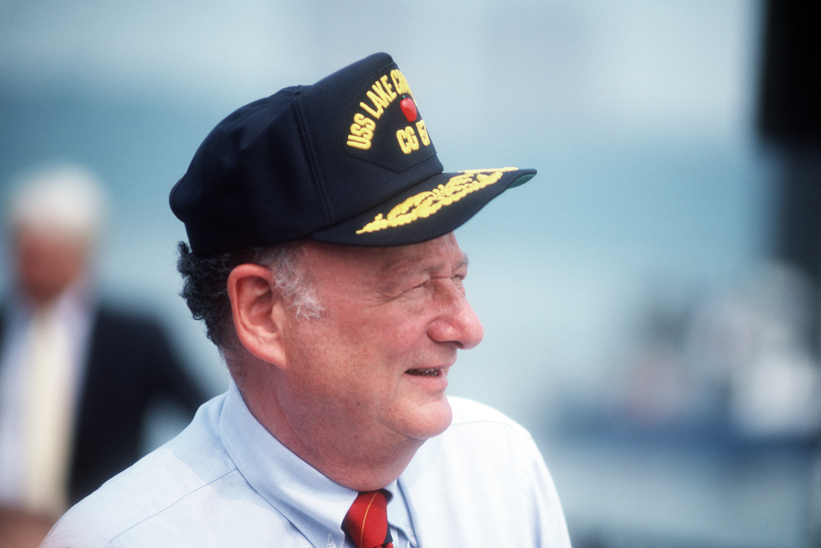 Edward I. Koch, mayor of New York City, sports a sailor's cap at the commissioning ceremony for the guided missile cruiser USS LAKE CHAMPLAIN (CG 57). Location: NEW YORK, NEW YORK (NY) UNITED STATES OF AMERICA (USA)